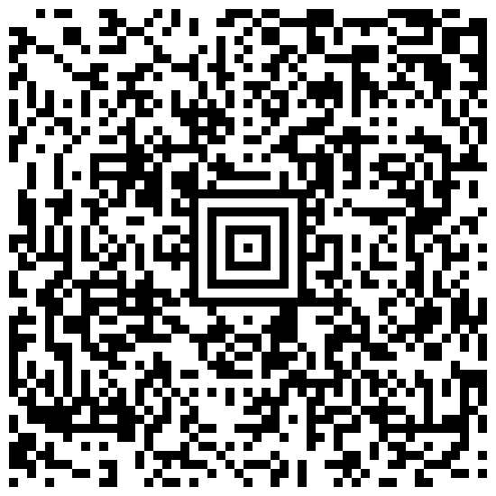 Example Code to ZXing, Mozilla, PHP, TinyURL